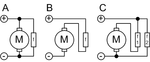 Series Shunt Compound Armature and Field winding DC Electric Motor